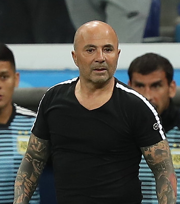 Jorge Sampaoli with Argentina at the 2018 FIFA World Cup